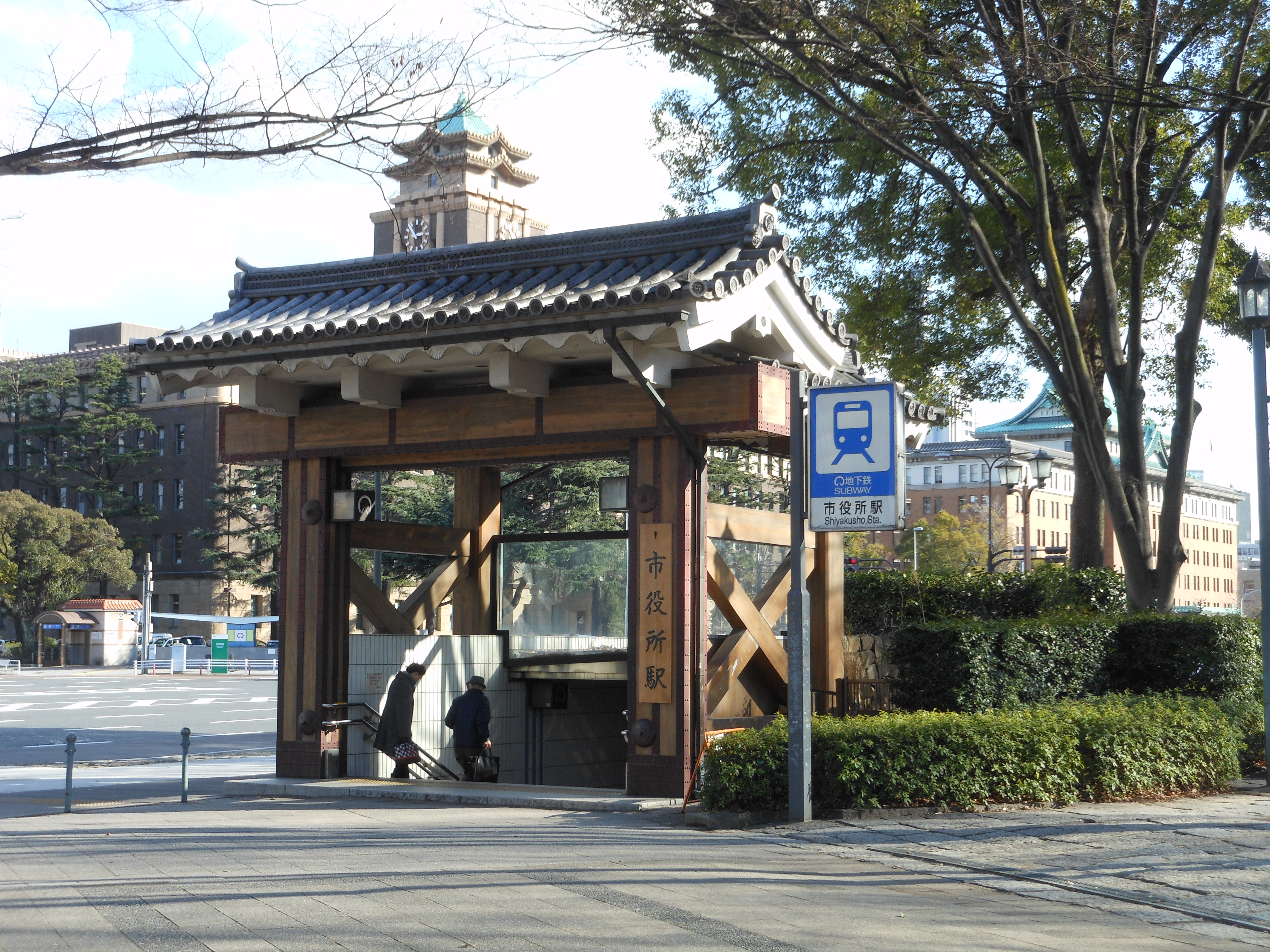 This is the exit No. 7 of Nagoya Municipal Subway Meijō Line Shiyakusho station. This exit is located in Sannnomaru 3 chome, Naka ward, Nagoya city, Aichi prefecture, Japan.